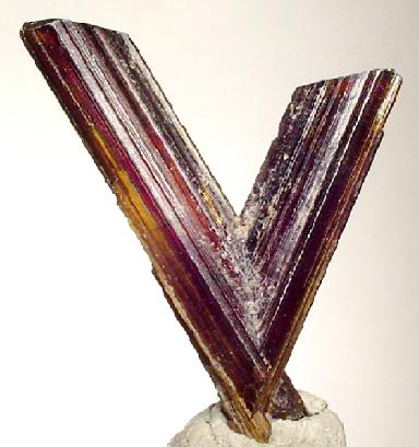 Rutile Locality: Itambacuri, Doce valley, Minas Gerais, Southeast Region, Brazil (Locality at ) A BEAUTIFUL thumbnail specimen of two, V-shaped, gemmy and lustrous, dark cognac-colored rutile crystals from the classic Brazilian locality of Itambacuri. Very trivial edge bruise to one crystal is barely noticeable. 1.9 x 1.7 x 0.3 cm